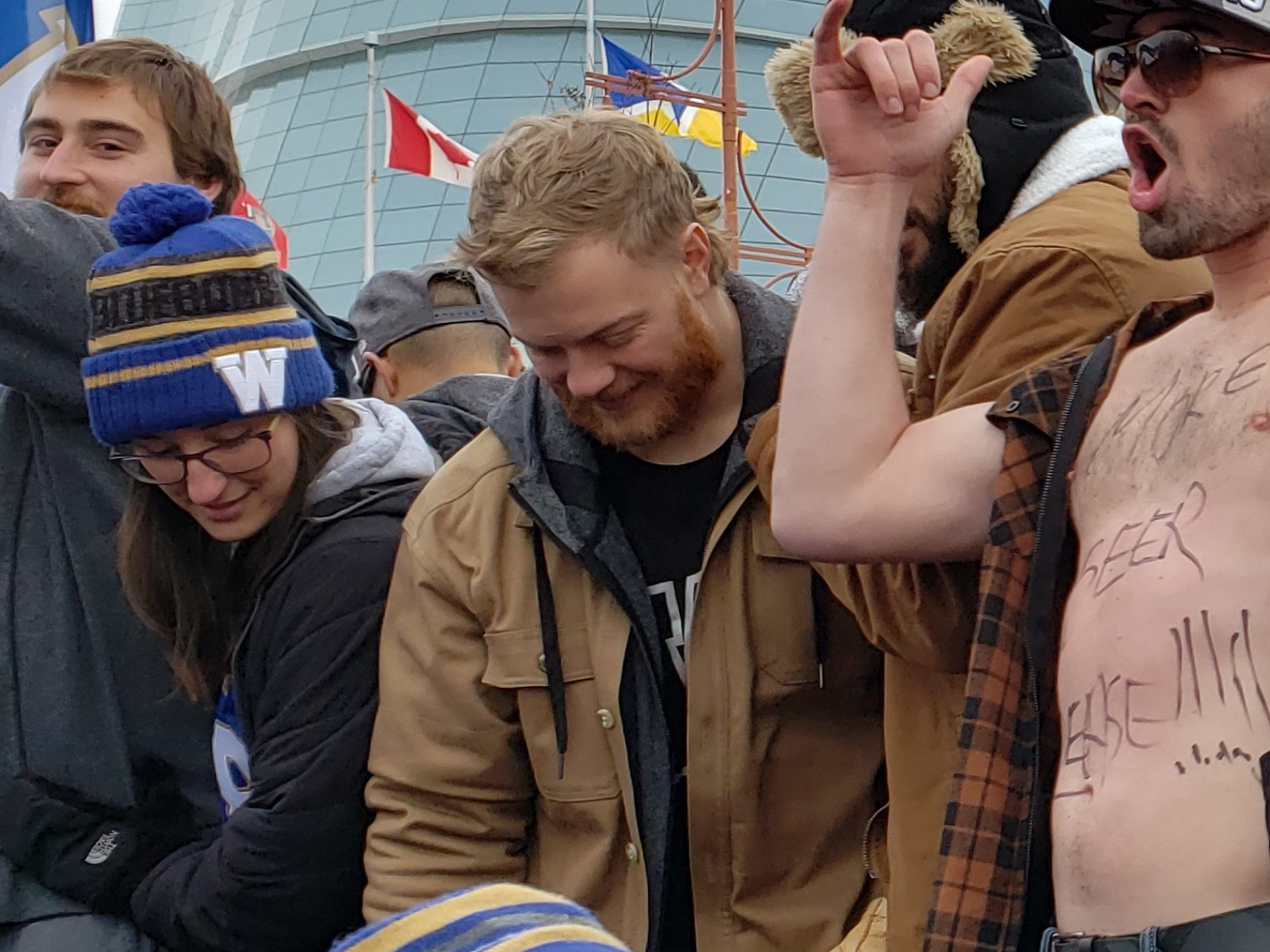 Blue Bombers Players with the Grey Cup during their championship parade in Winnipeg.